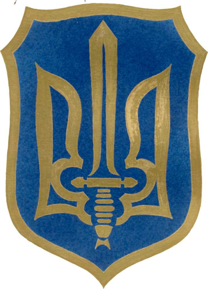 Logo (symbol) of the Organization of Ukrainian Nationalists (OUN)